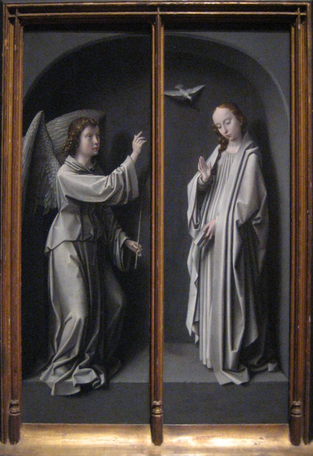 Archangel Gabriel and Virgin Annunciate, paintings by Gerard David, c. 1505, Metropolitan Museum of Art